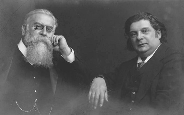 Raoul Pugno (1852-1914) and Eugène Ysaÿe (1858-1931).